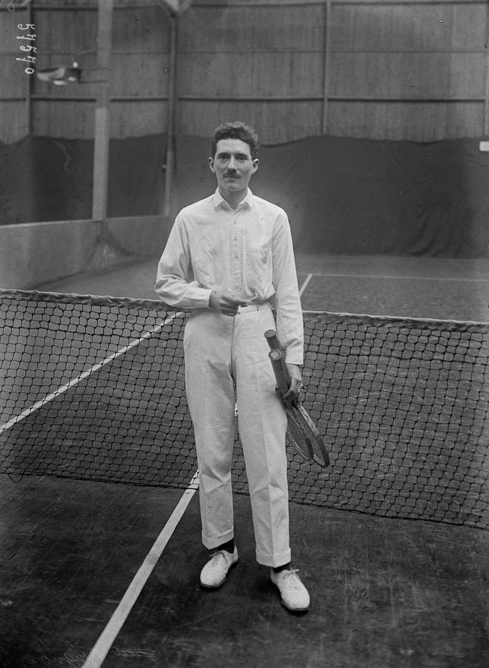 French tennis player Jacques Brugnon in 1920